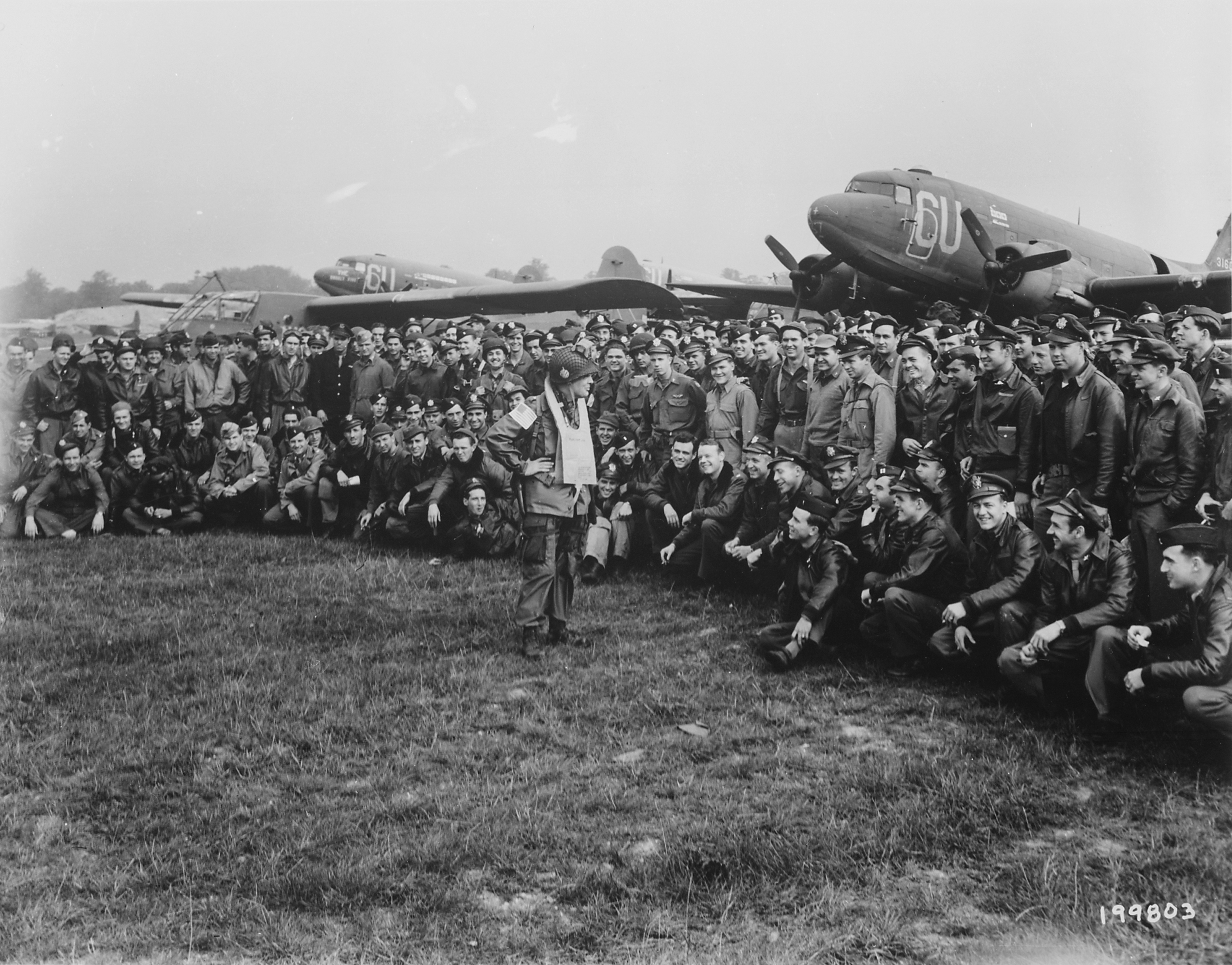 Brigadier General Anthony C. McAuliffe, artillery commander of the 101st Airborne Division, gives his various glider pilots last minute instructions before the take-off on D minus 1.